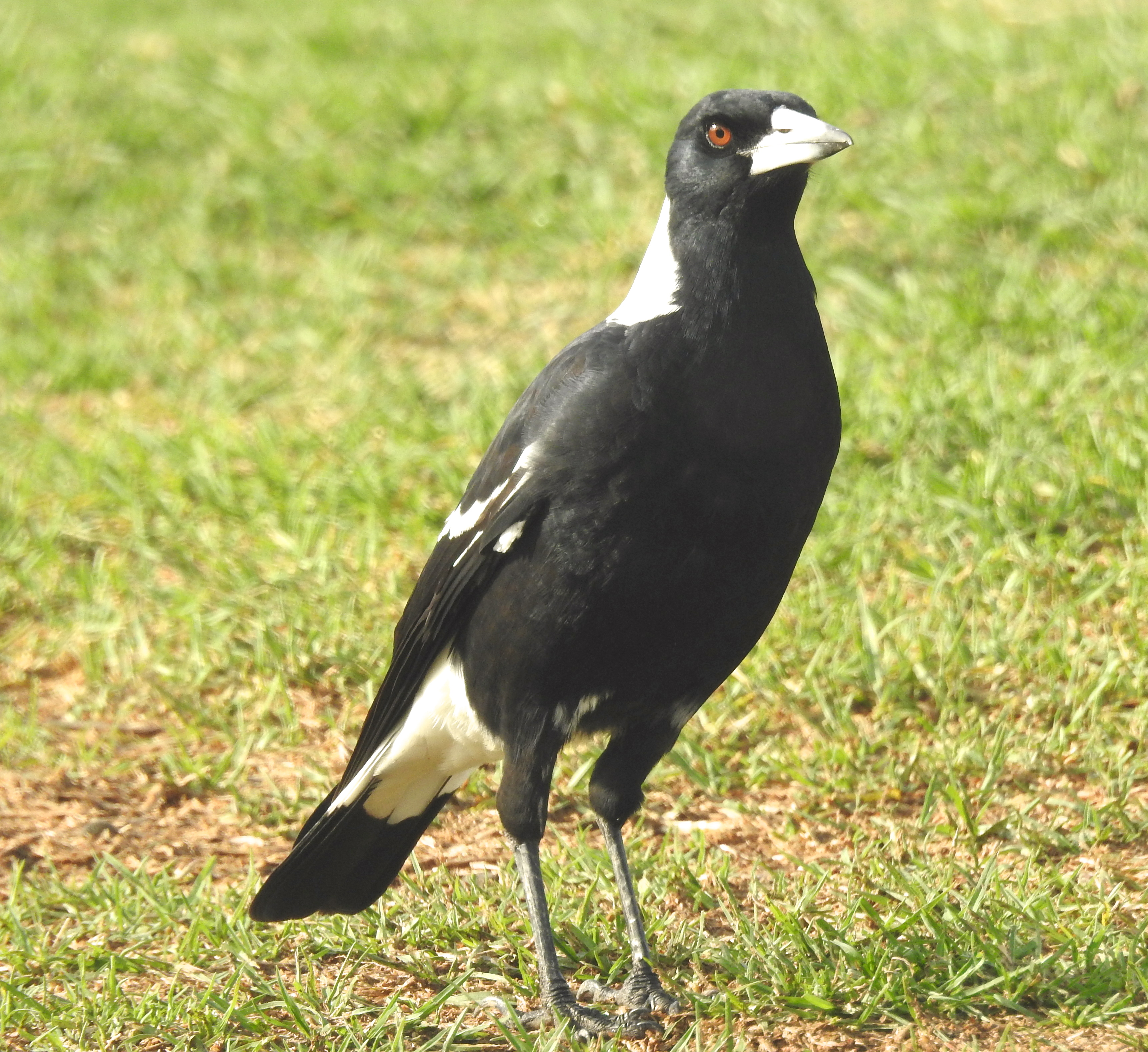 An Australian Magpie, displaying morphology traits of the Artamidae Family